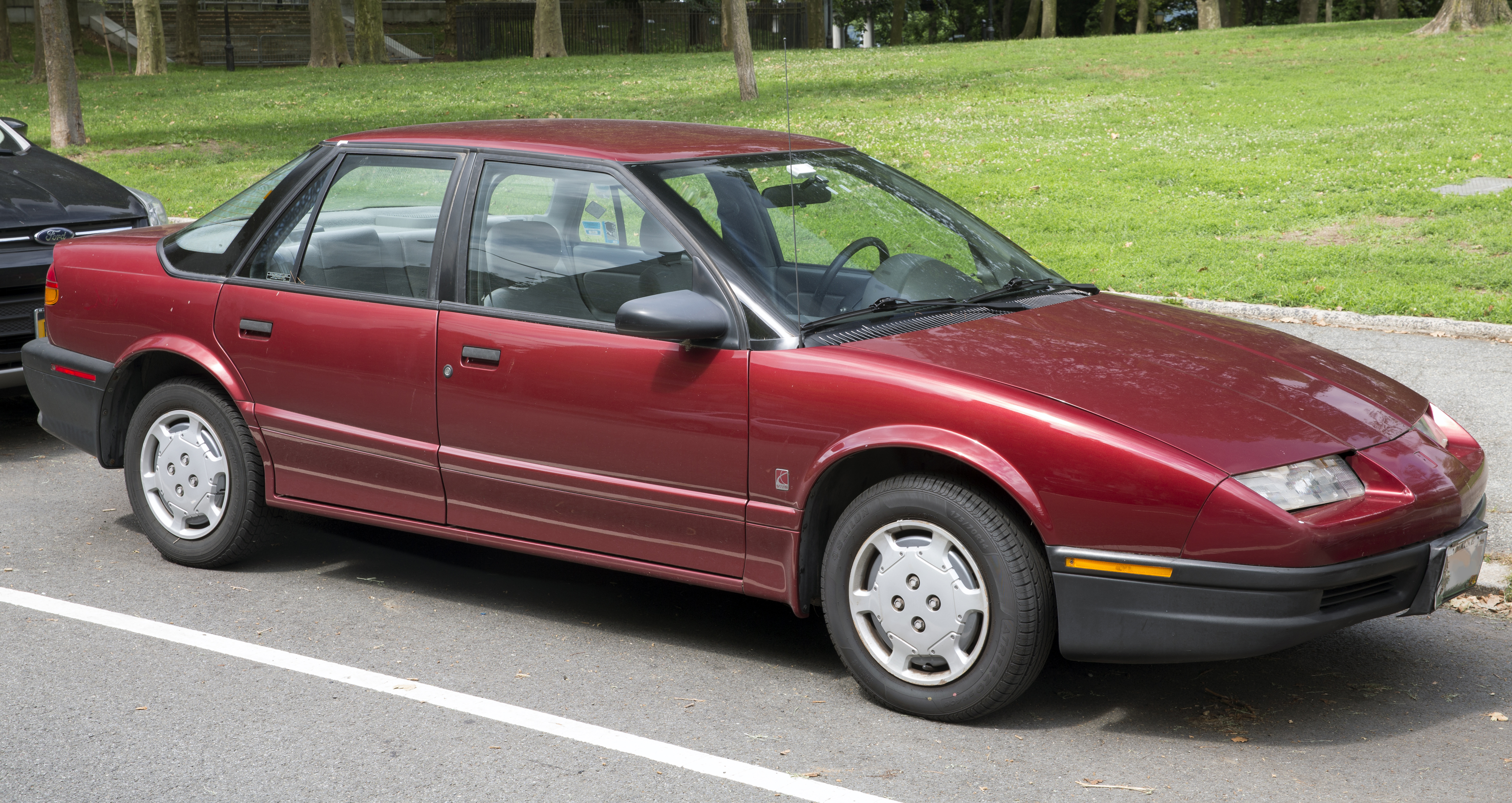 1995 Saturn SL1 in rather good nick. 1.9-liter MPFI engine, built in Spring Hill, TN.